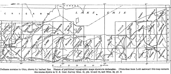 Defiance Moraine throughout Ohio